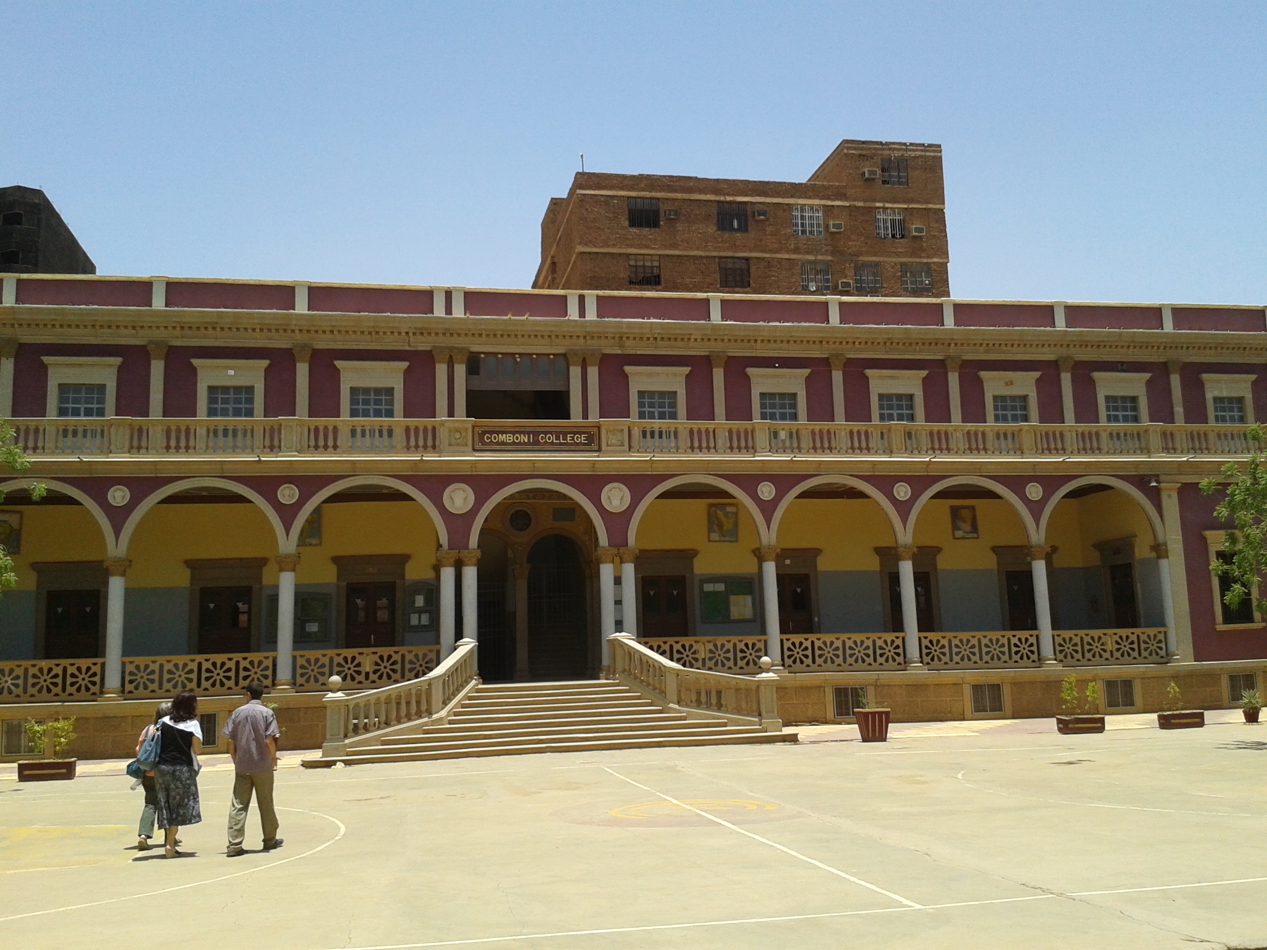 Comboni College built in the beginning of XX c. by Comboni fathers